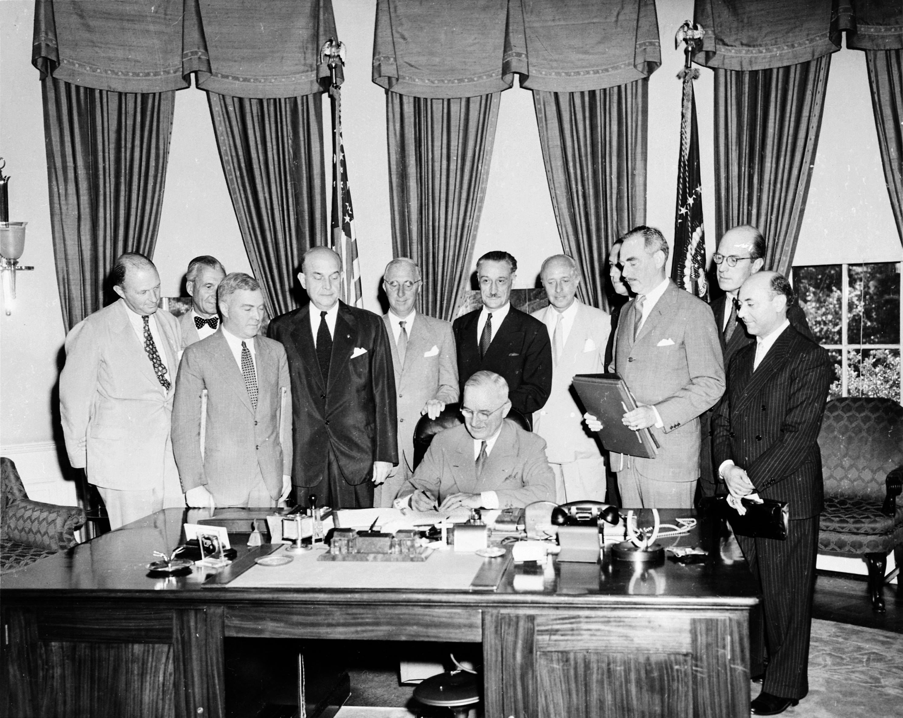 Photograph of President Truman signing the document implementing the North Atlantic Treaty at his desk in the Oval Office, as a number of dignitaries look on: (left to right) Sir Derick Boyer Millar, Chargé d'affaires, United Kingdom; Ambassador Henrik de Kauffmann of Denmark; W. D. Matthews, Charge d'Affaires, Canada; Secretary of Defense Louis A. Johnson; Ambassador Wilhelm Munthe de Morgenstierne of Norway; Ambassador Henri Bonnet of France; Ambassador Pedro Teotónio Pereira of Portugal; Secretary of State Dean Acheson; Jonkheer O. Reuchlin, Chargé d'affaires, the Netherlands; and Mario Lucielli, Chargé d'affaires, Italy.